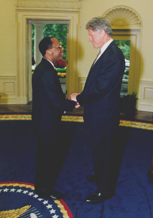 Jean-Bertrand Aristide meets Bill Clinton in the Oval Office, October 14, 1994.